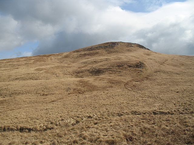 Cnoc na h-Iolaire A small hill overlooking the Jura road. As usual covered in tussocky moorgrass.